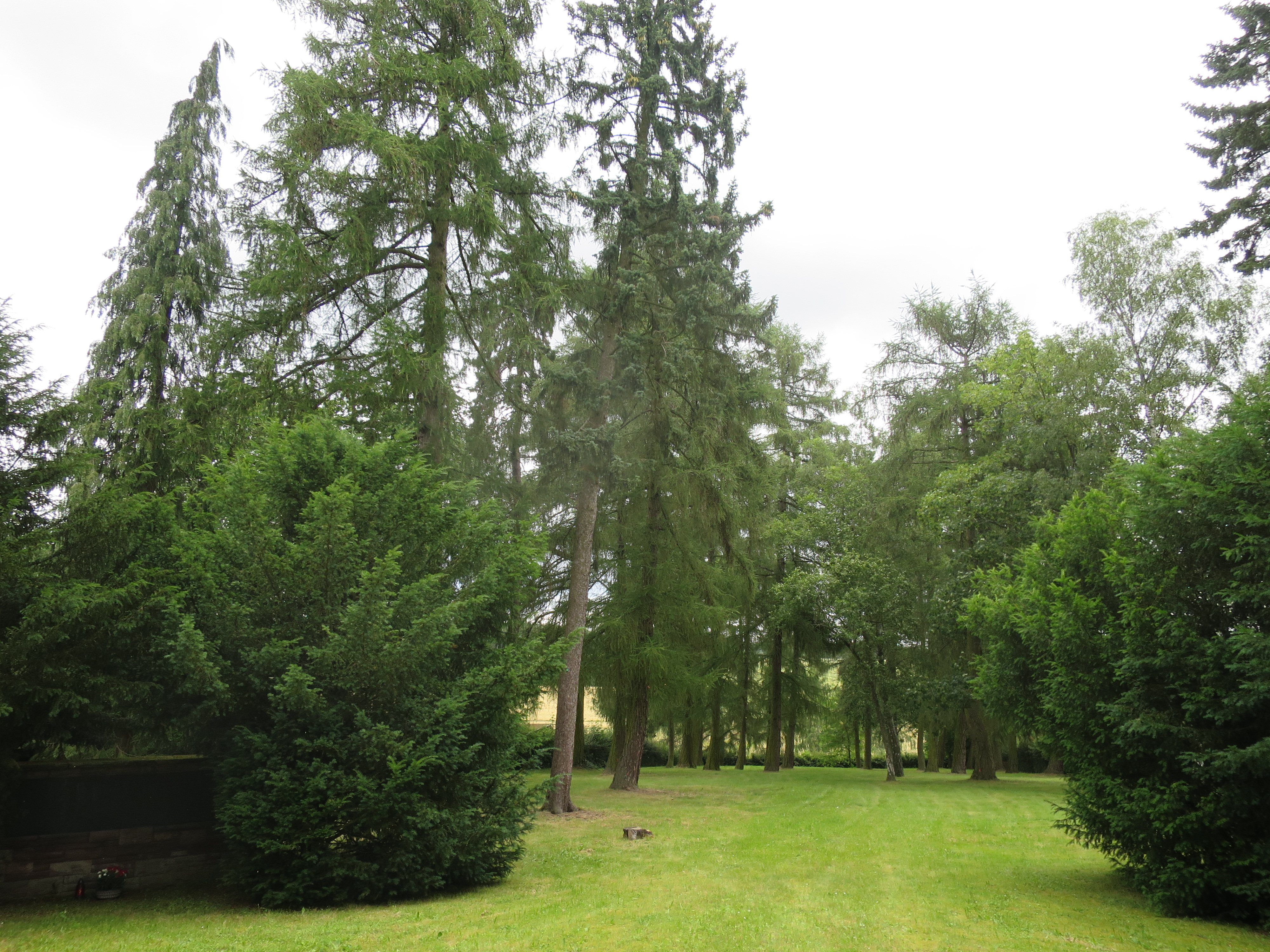 Prisoners of war cemetery in Wetzlar-Büblingshausen